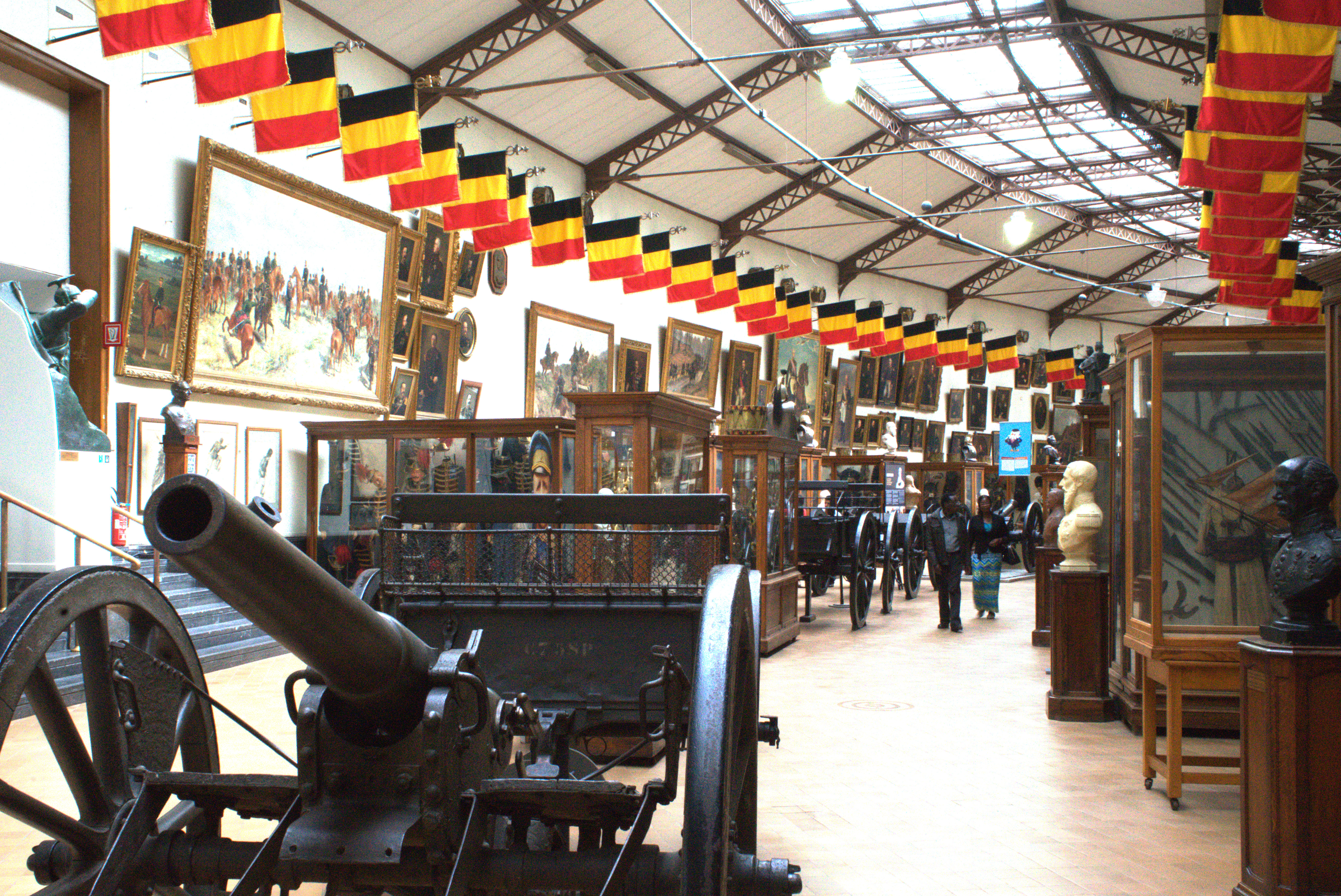 This is a file created at the museum: Royal Museum of the Armed Forces and of Military History in Brussels